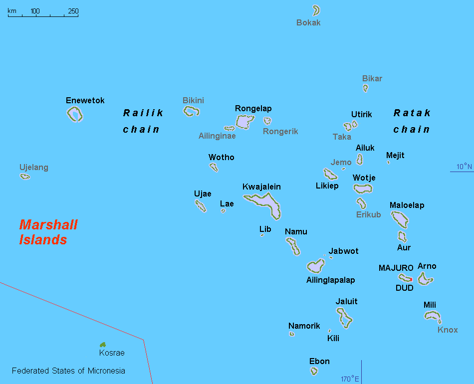 Map (rough) Marshall islands, own work composed from various mapreferences